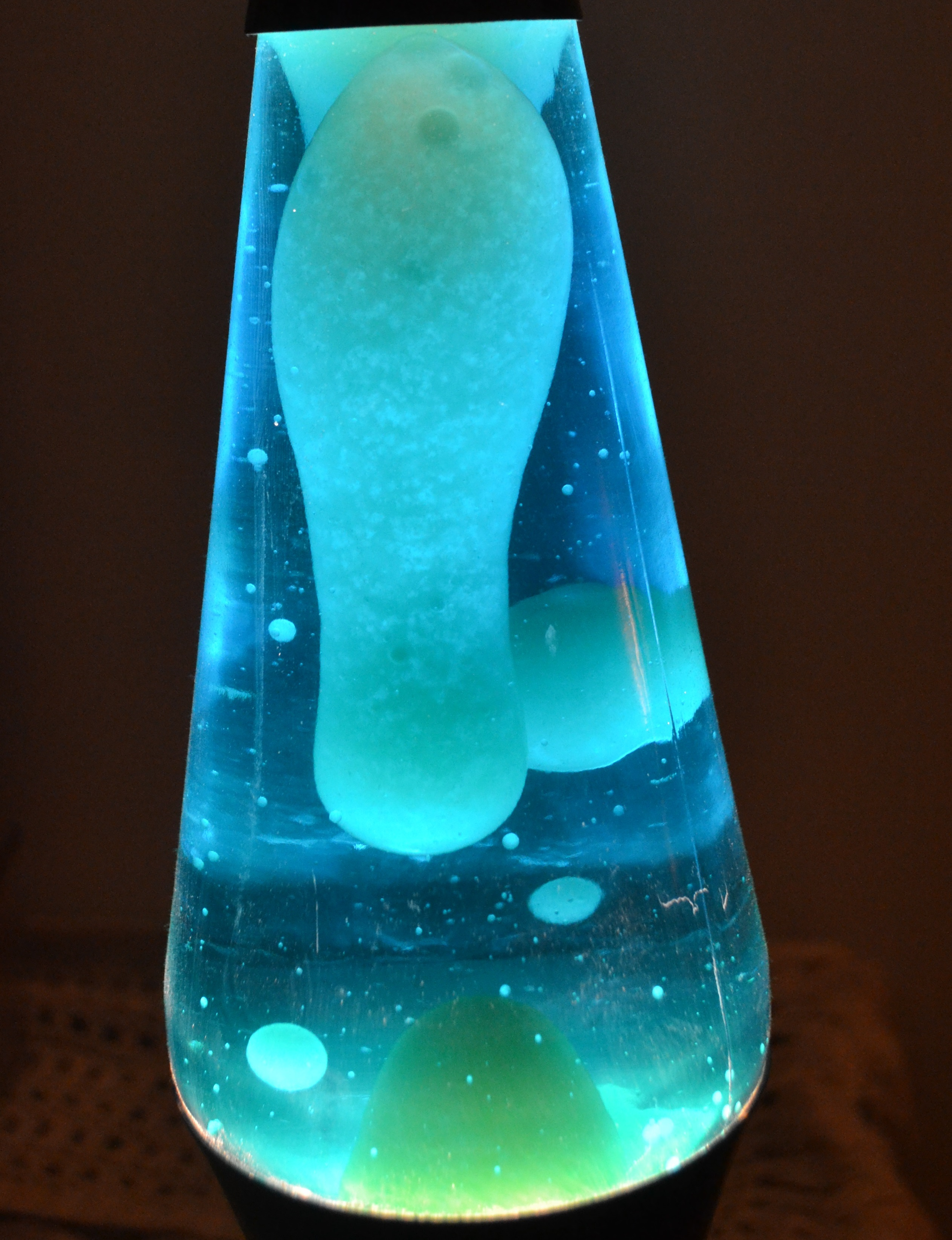 Blue Lava Lamp